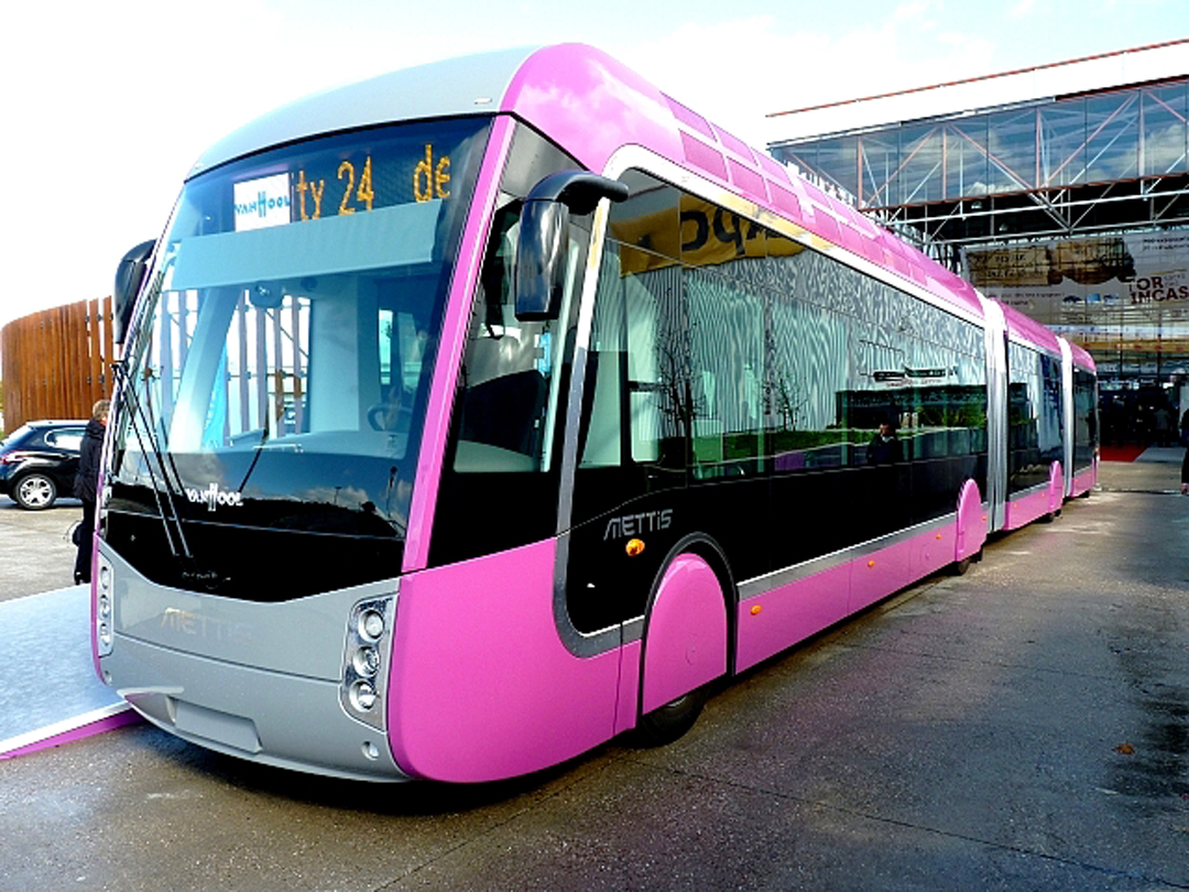 Mettis bus rapid transit system in Metz (October 2012).